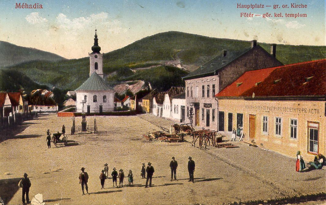 main square of Mehadia around 1900